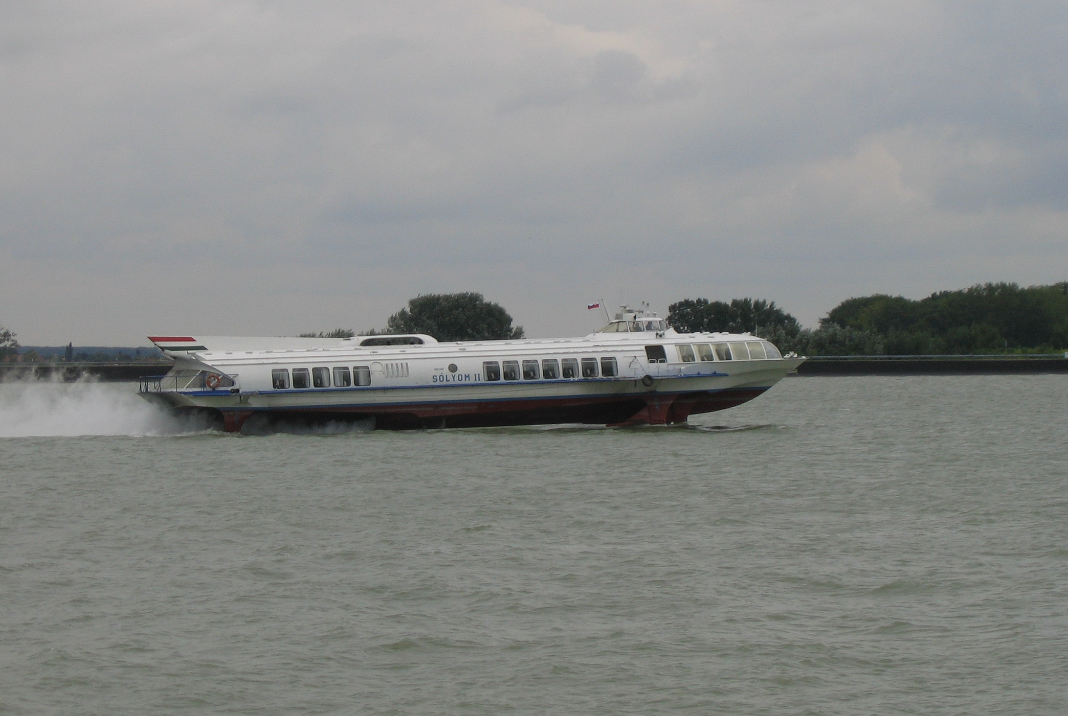 Encounter with hydrofoil near Gabčíkovo, Slovakia